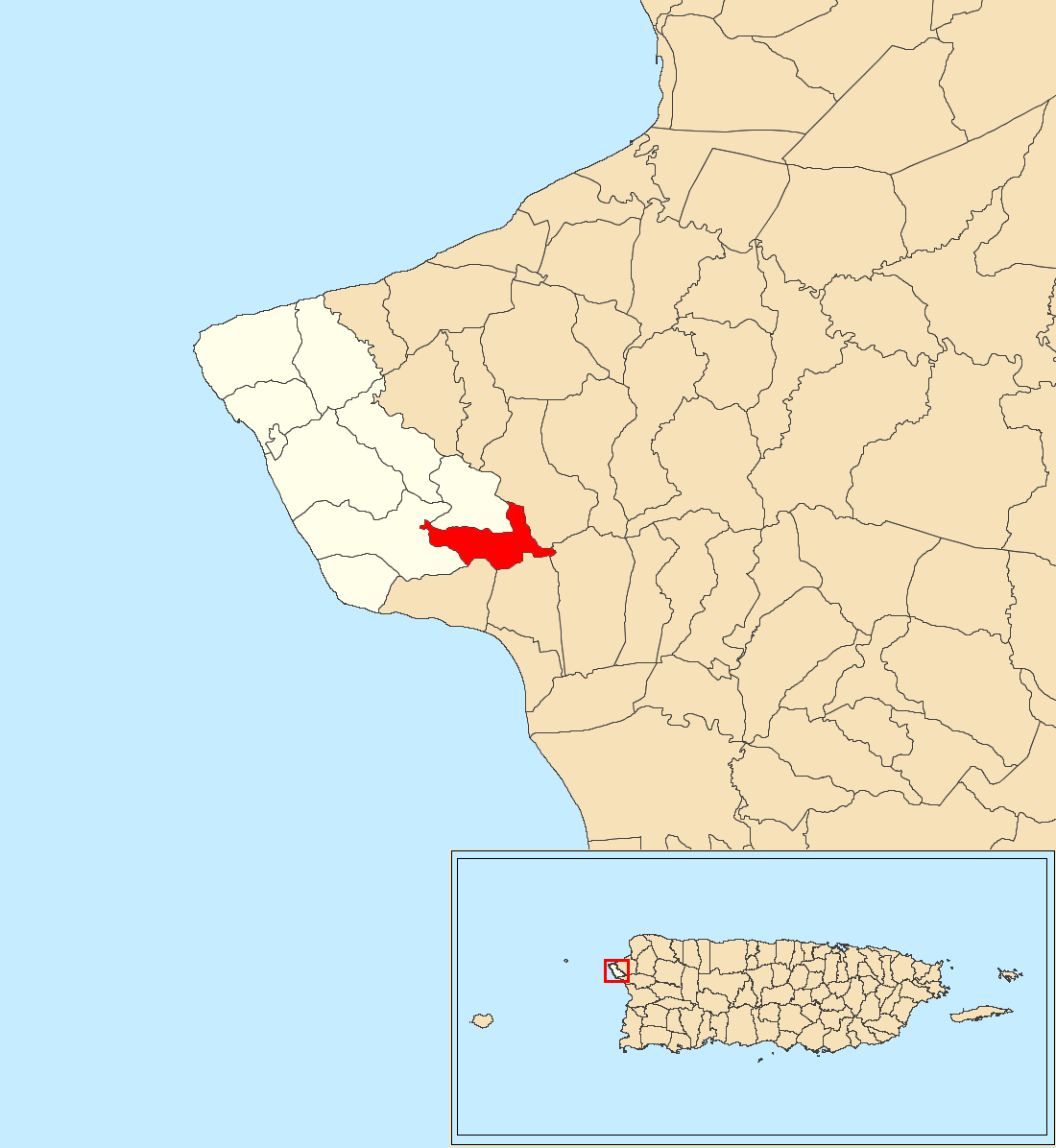 Atalaya, Rincón, Puerto Rico locator map